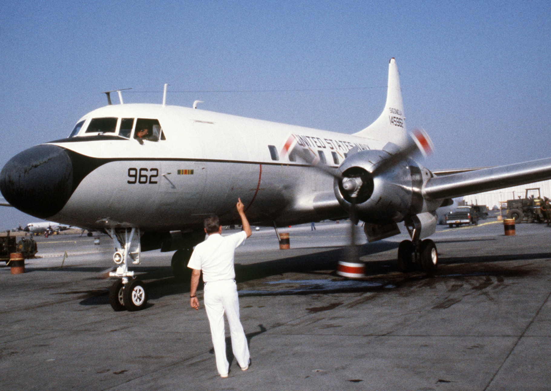 A U.S. Navy Convair C-131G Samaritan (BuNo 145962) with its engines running. This aircraft was assigned to Naval Air Station Sigonella, Italy, and was retired to the AMARC as MB0007 on 26 June 1986.